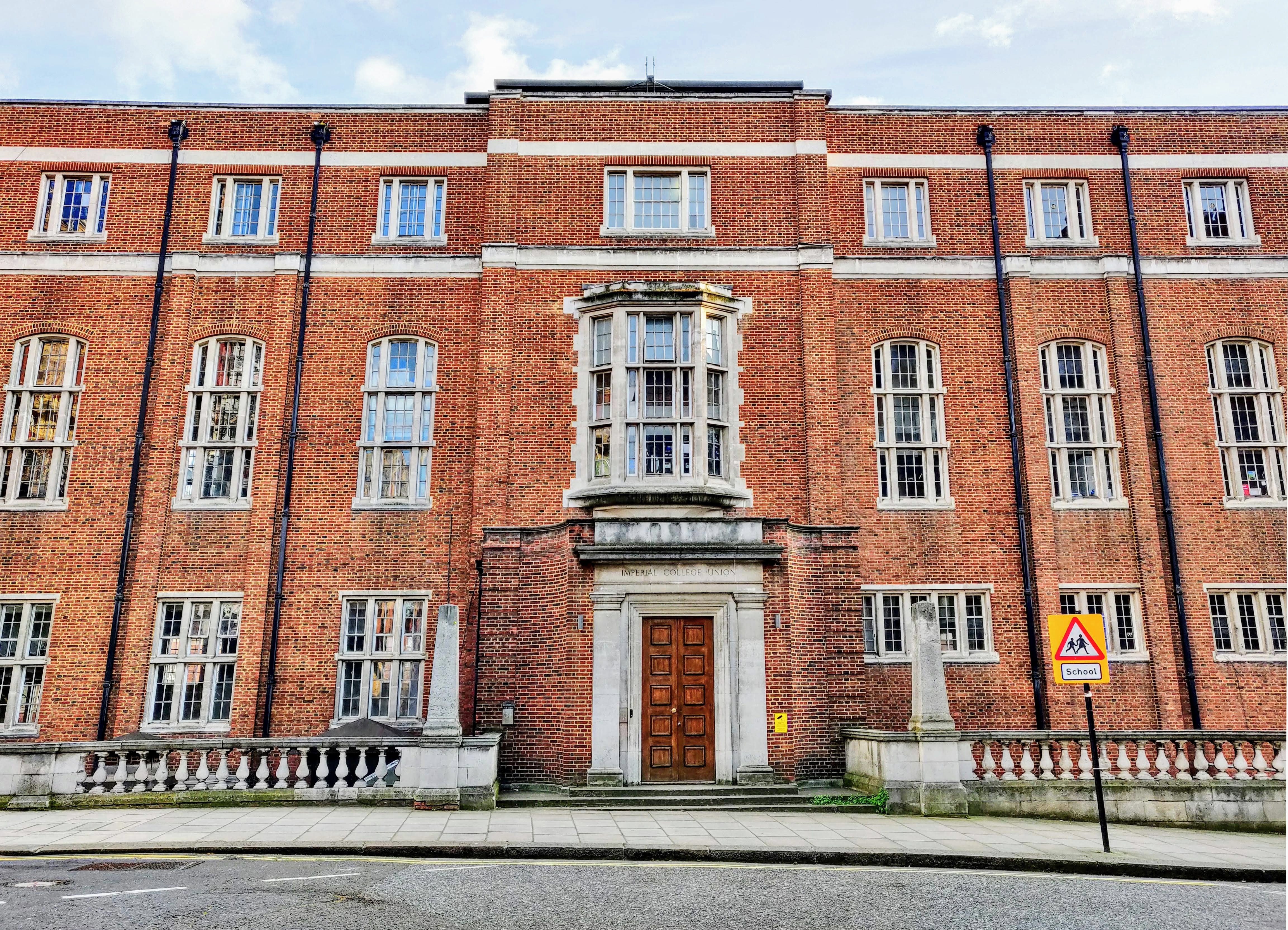 The back entrance on the Gore to the Union Building, the home of Imperial College Union. The main entrance to the Union building is in Beit Quadrangle, on the other side.